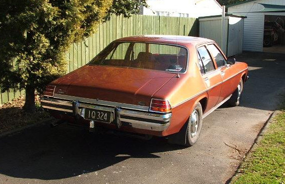 1976-1977 Holden HX Premier.